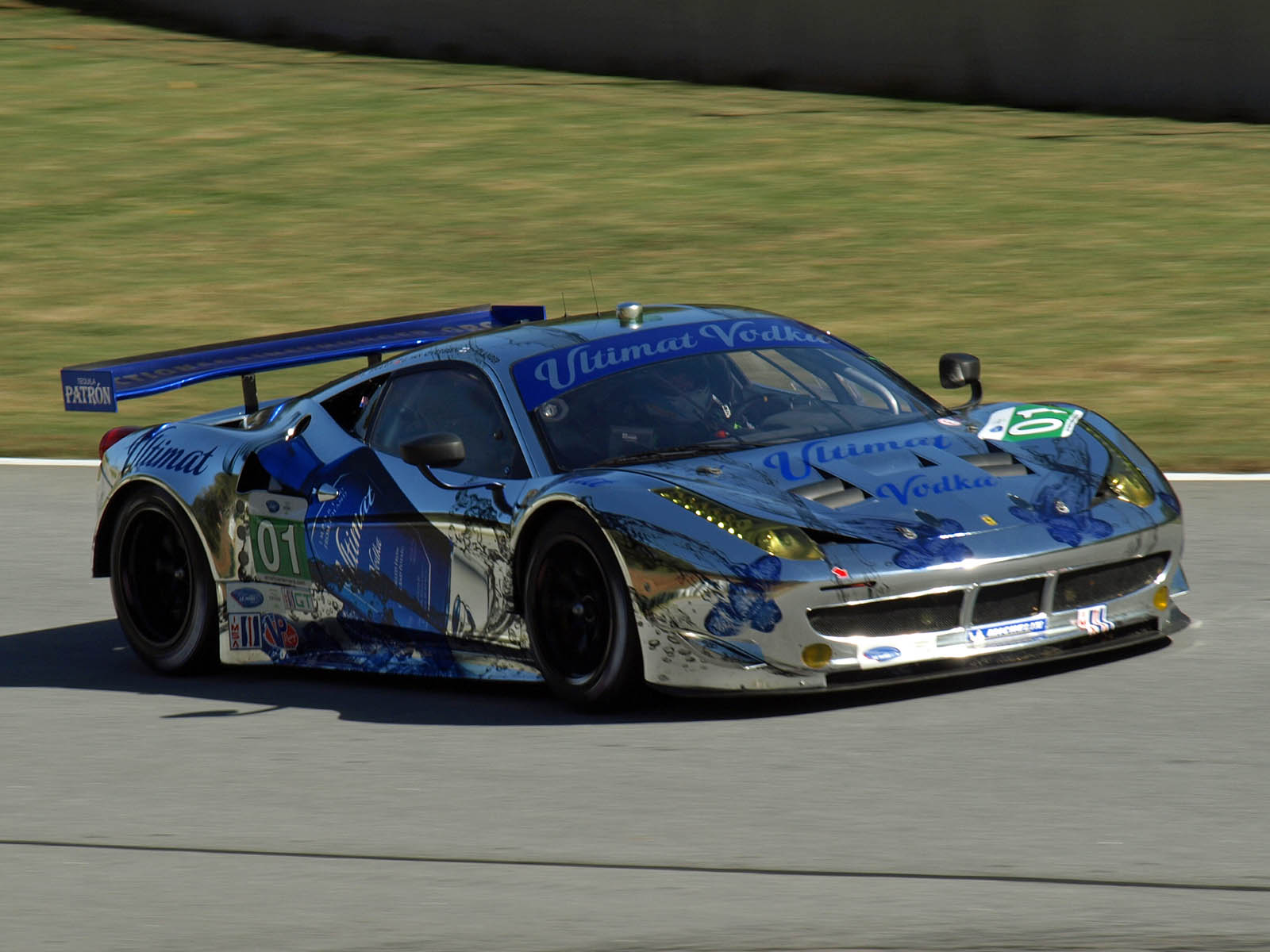 Toni Vilander in the Extreme Speed Motorsports Ferrari 458 GTC during qualifying for the 2012 Petit Le Mans